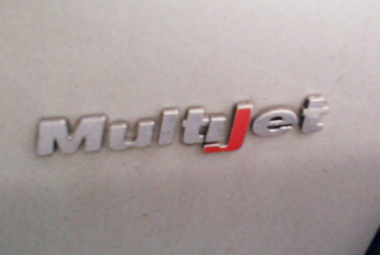 Fiat Group Multijet logo